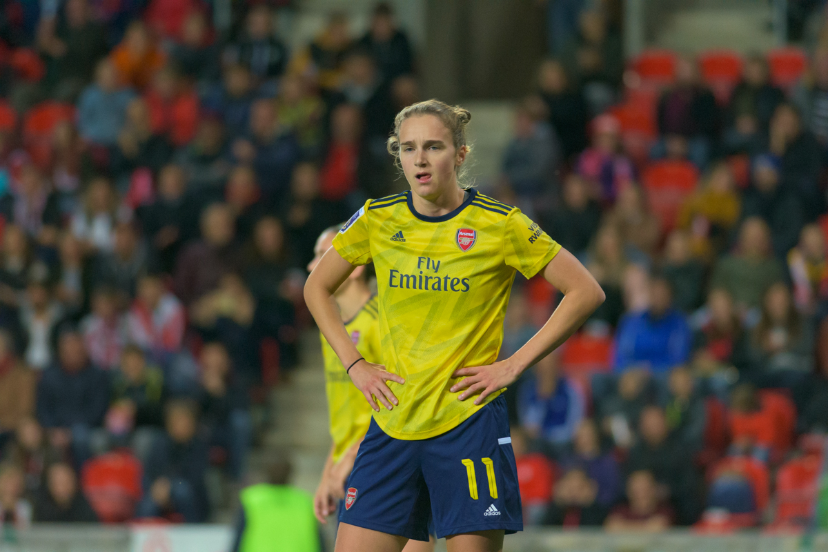 Vivianne Miedema during the match vs Slavia Praha (women), October 2019